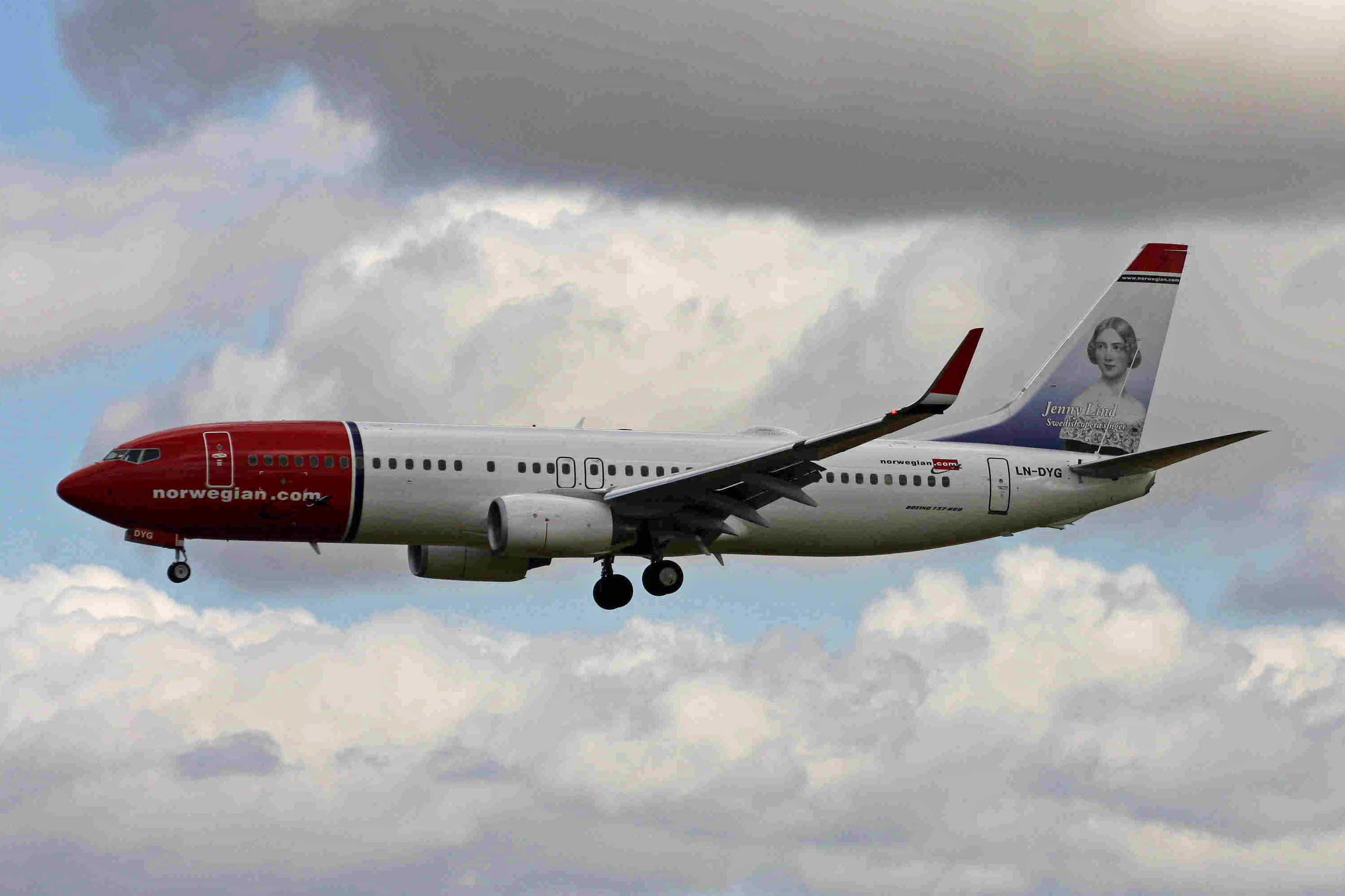 'Jenny Lind, Swedish Opera Singer' tail c/scheme